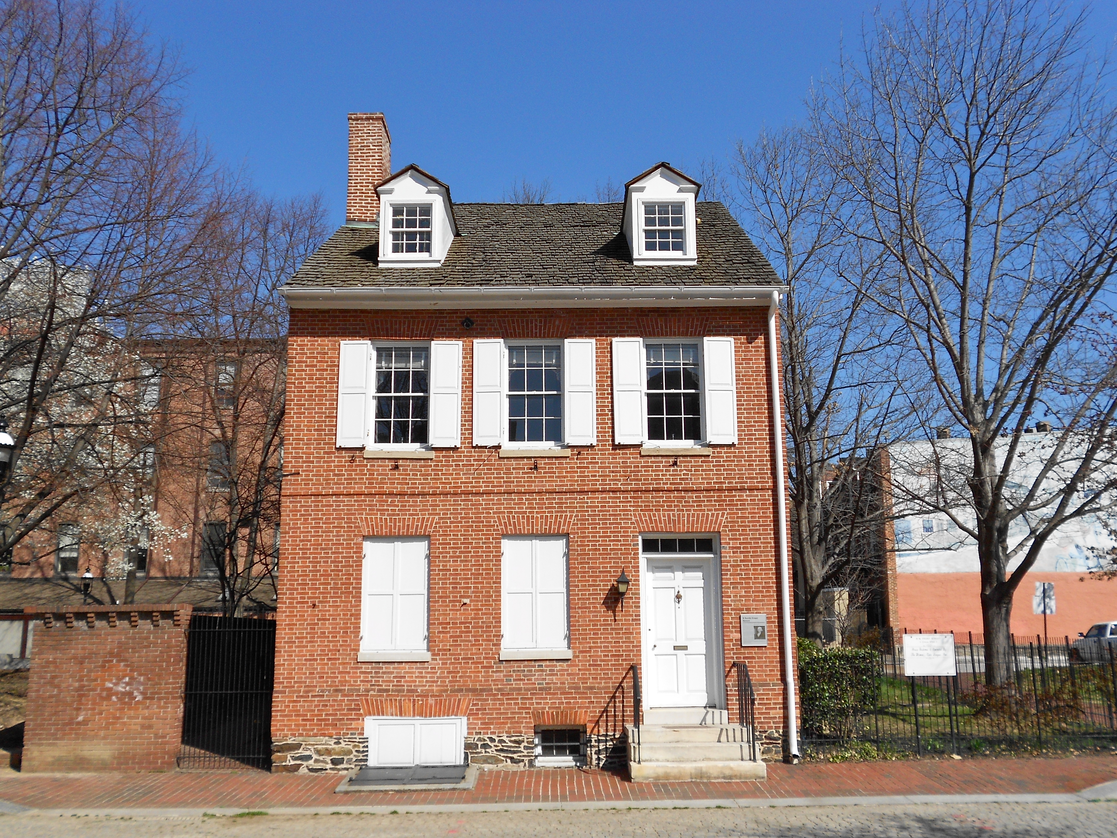 9 North Front Street in Baltimore, Maryland on the NRHP right next to the Shot Tower.